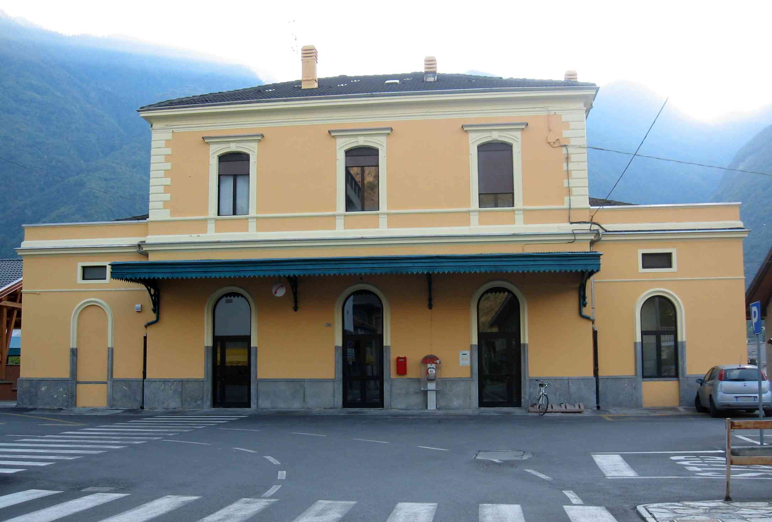 Verrès train station (AO, Italy)